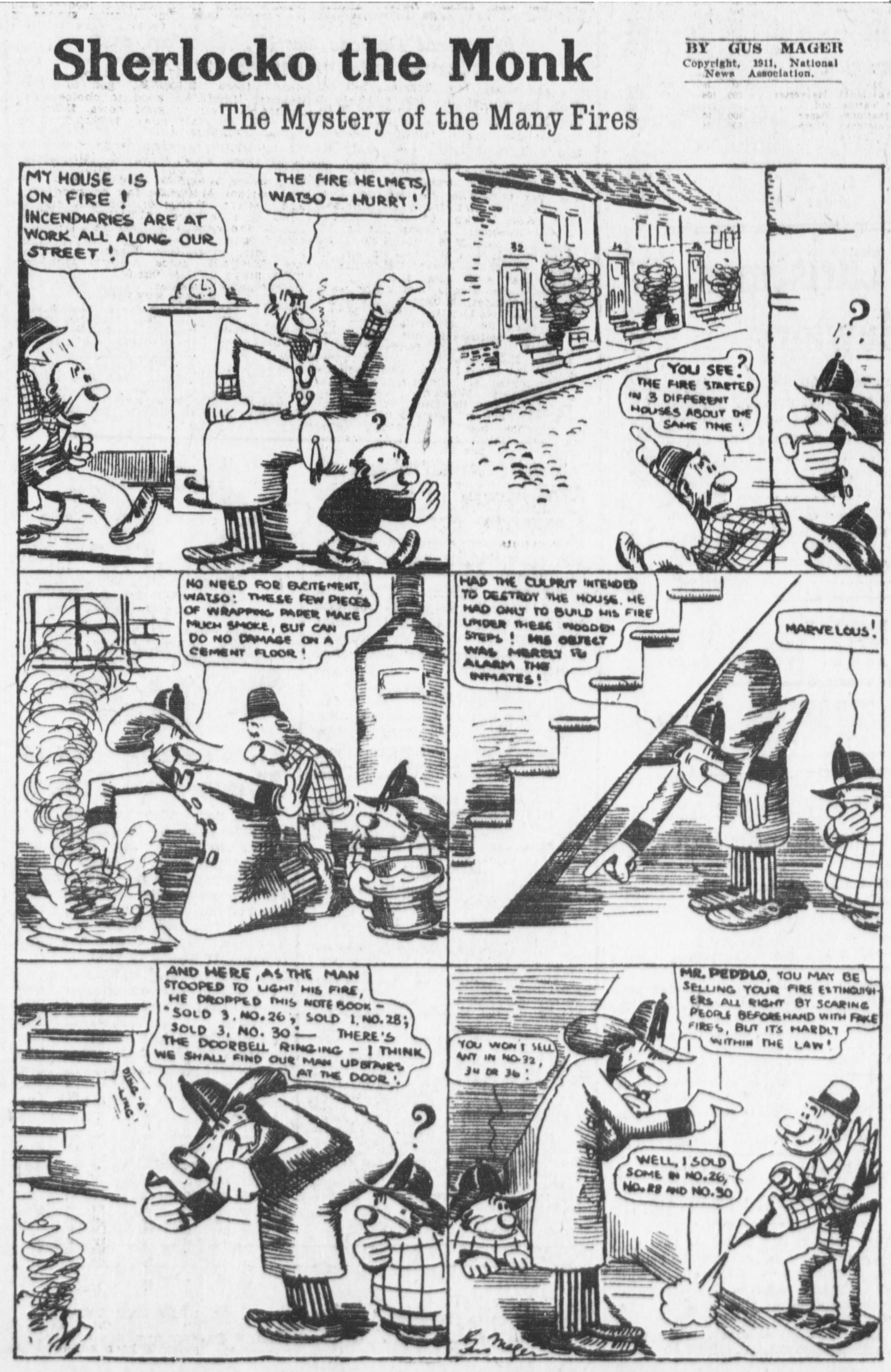 Sherlocko the detective and his associate Watso investigate a string of mysterious house fires which all began at approximately the same time. The text in this image should be transcribed and included in the description on this page. See also Inscription . The Google OCR tool may be of use in transcribing images.